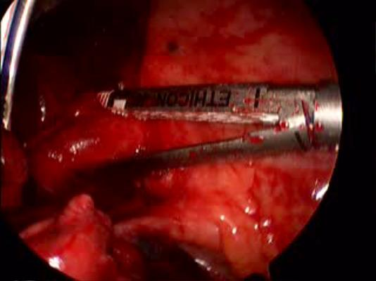 Image generated by Ddearmond from a thoracoscope during an operation with patient consent. Released under the GFDL.